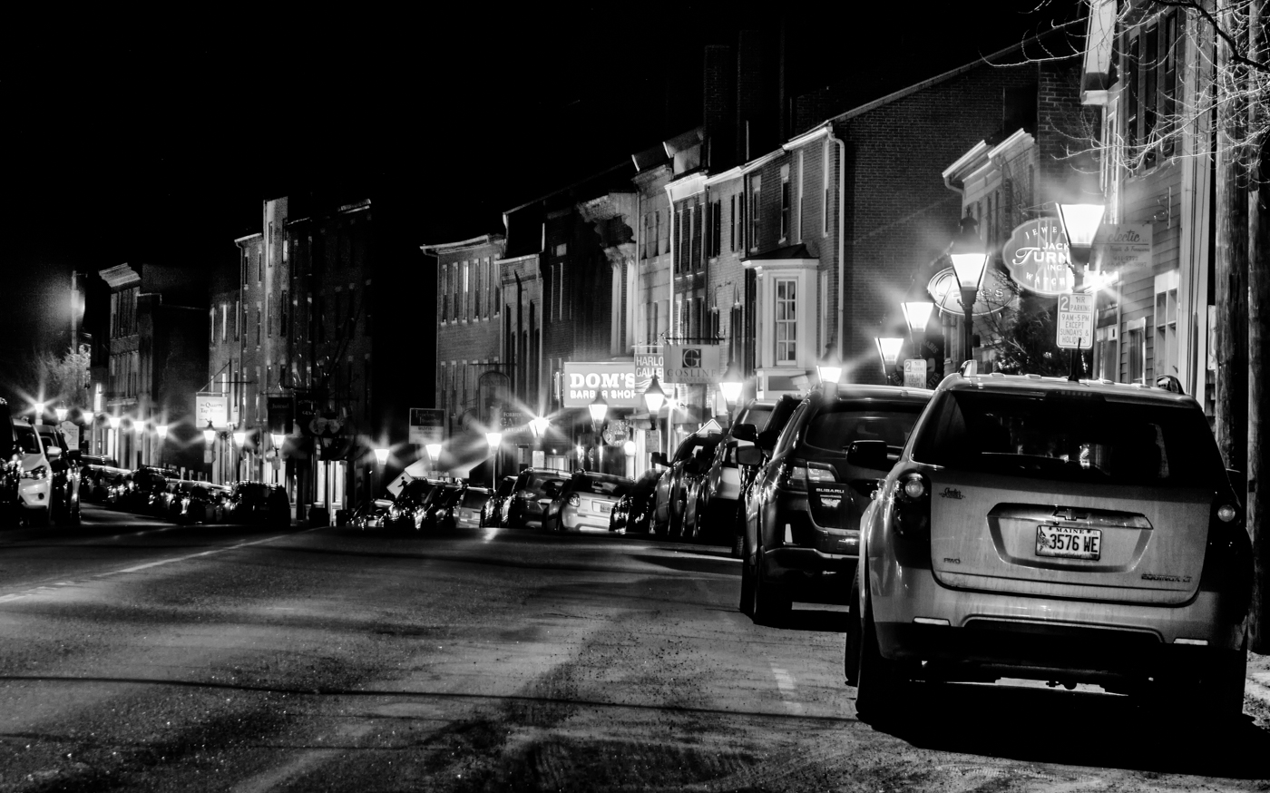 This night photo is of a section of the busy thoroughfare through Hallowell, Maine. This small town has a lively evening scene mostly on this street with a number of restaurants.